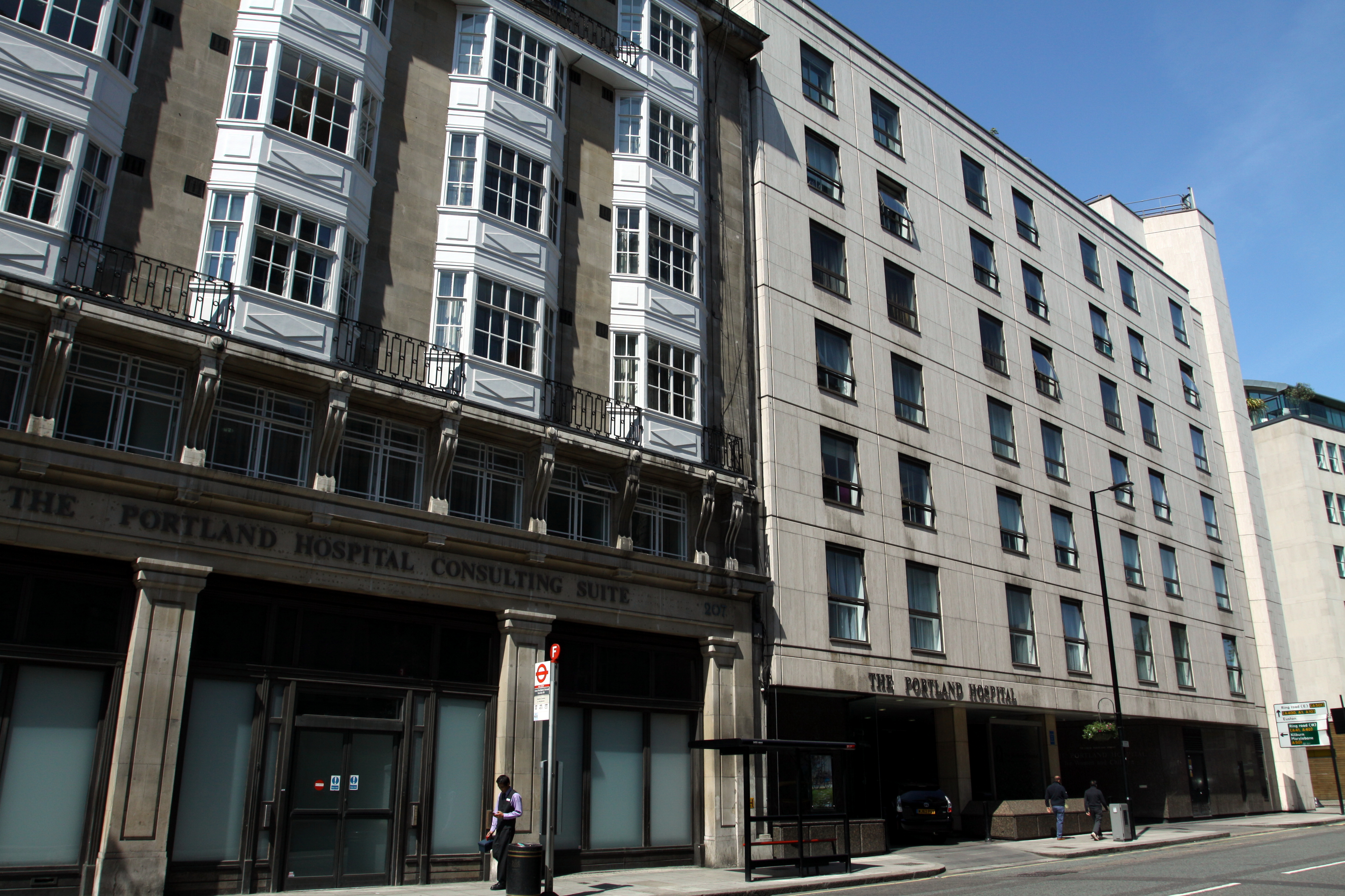 The Portland Hospital from Great Portland Street, the City of Westminster in London, England, Great Britain The making of this file was supported by Wikimedia UK.